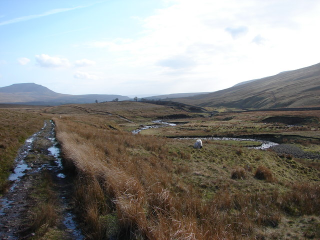 Track between Blea Moor and Ribblehead, near to Ribblehead, North Yorkshire, Great Britain. Having come down from Blea Moor, there is relatively flat walking to Ribblehead but one or two Becks can be difficult to cross after rain. On the right is Little Dale Beck. On the left is Ingleborough.